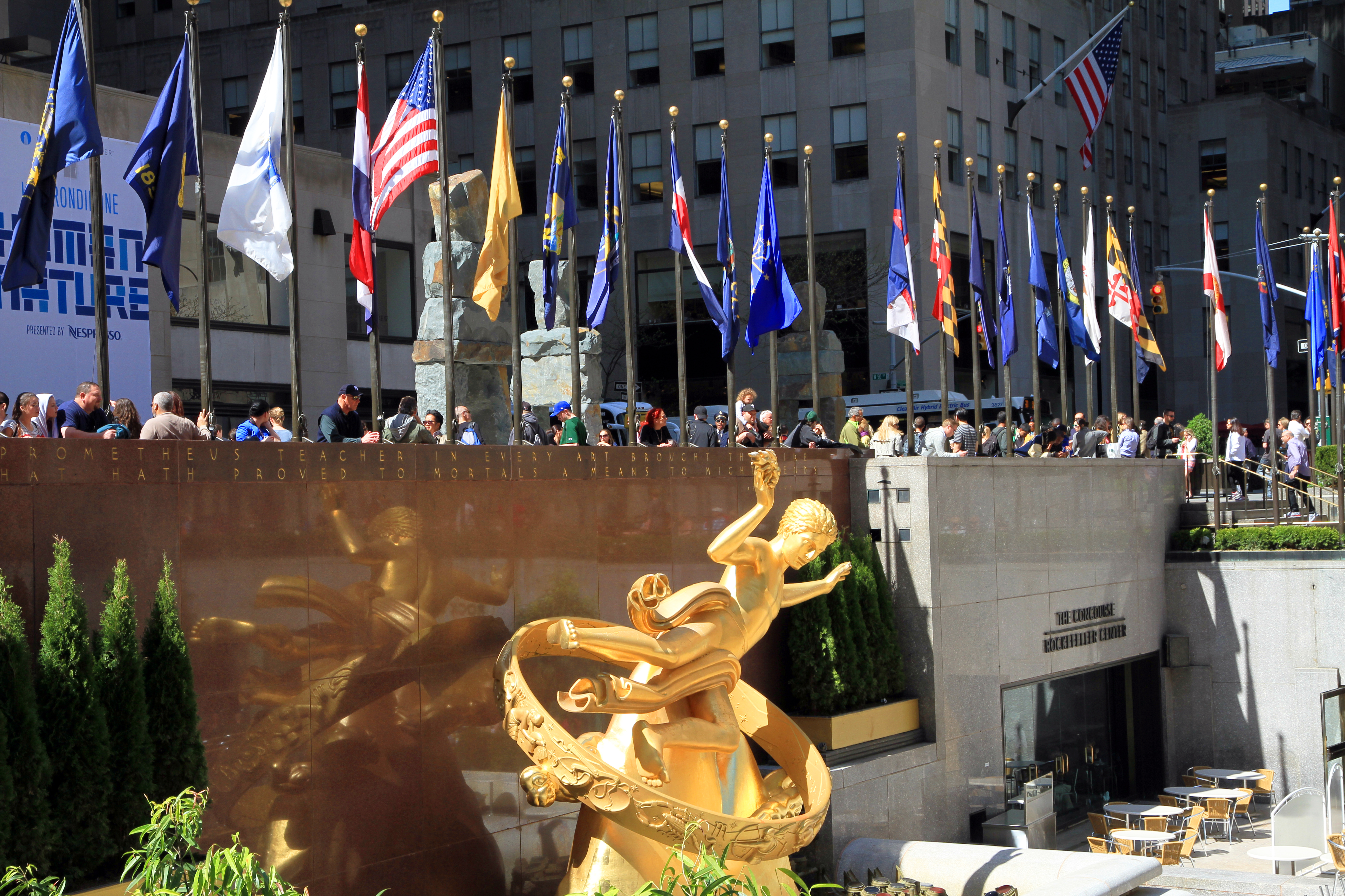 Rockefeller Plaza